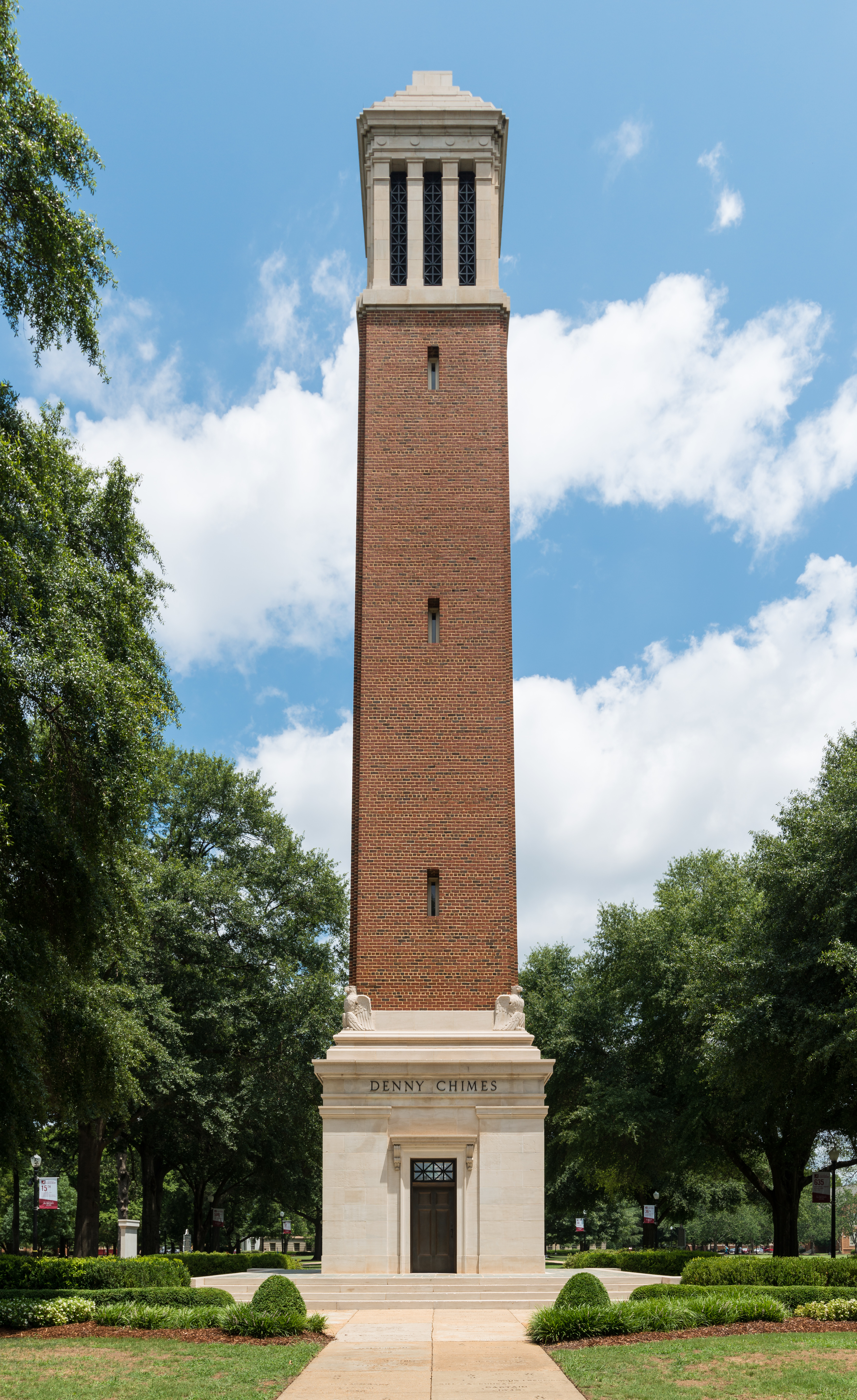 A south view of Denny Chimes, a bell tower, located on the campus of the University of Alabama, Tuscaloosa